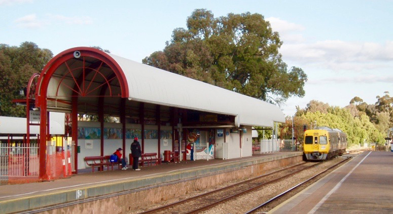 Rail platforms at Salisbury Interchange, South Australia.